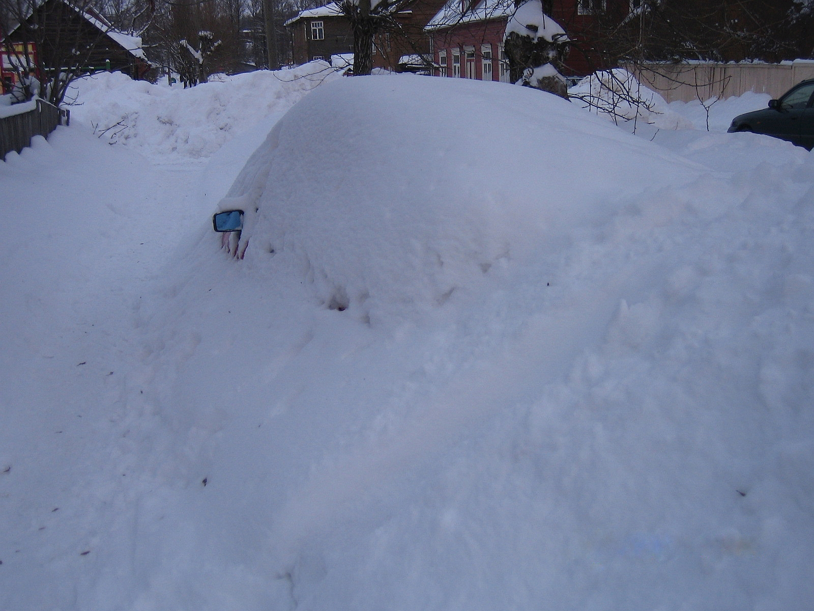 Car is used as sledging slope in winter (Estonia)